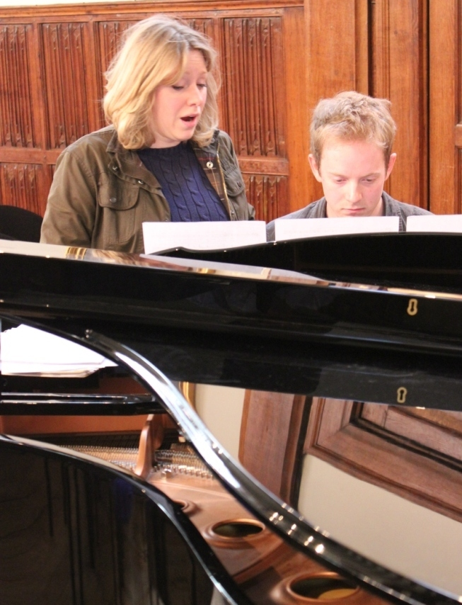 Sophie Bevan rehearses with Sebastian Wybrew at Gresham College ahead of the 'Debussy: Text and Ideas' conference in April 2012.